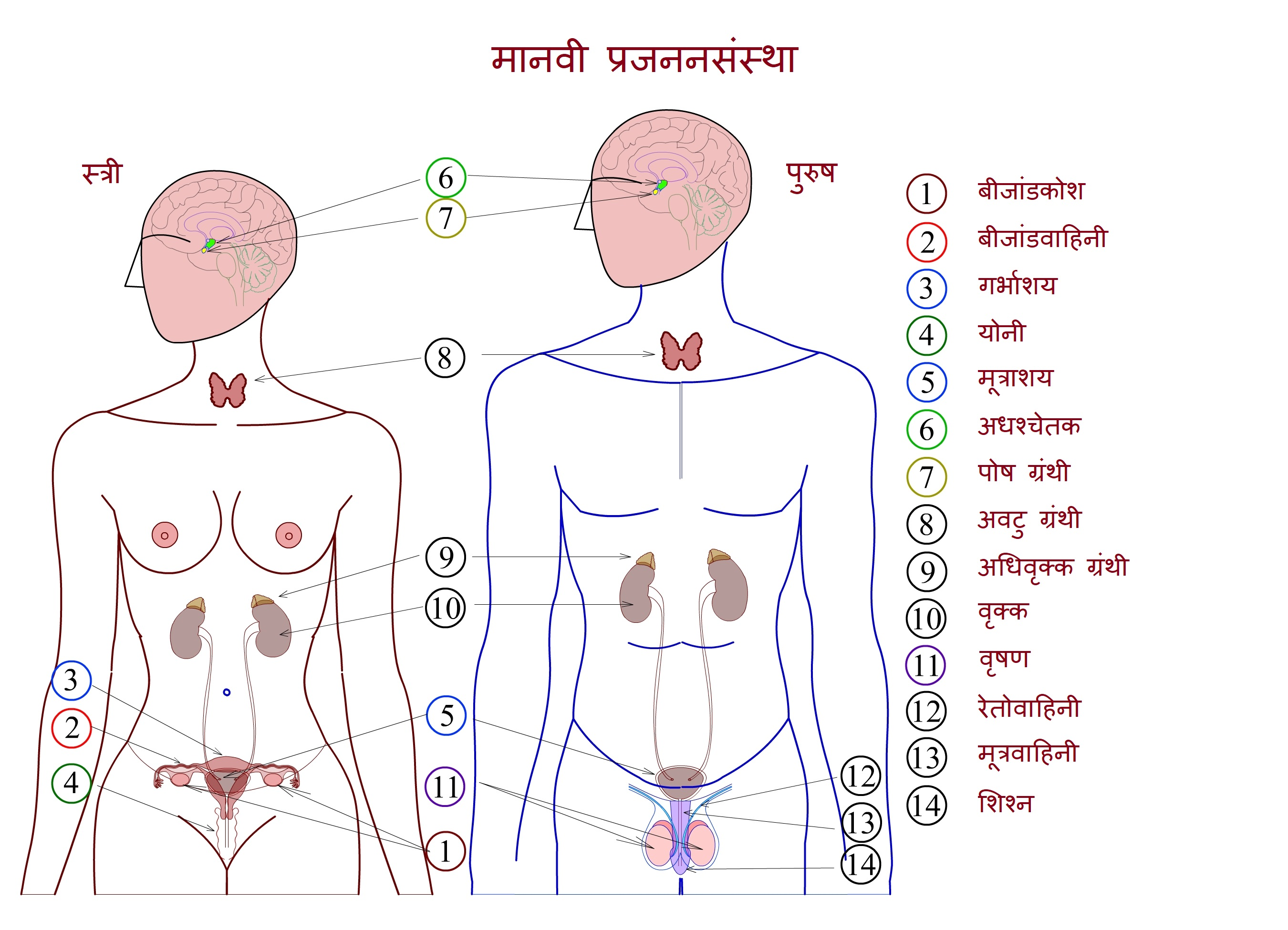 This figure shows Internal and external sex organs and associated endocrine glands of Human Reproductive System.